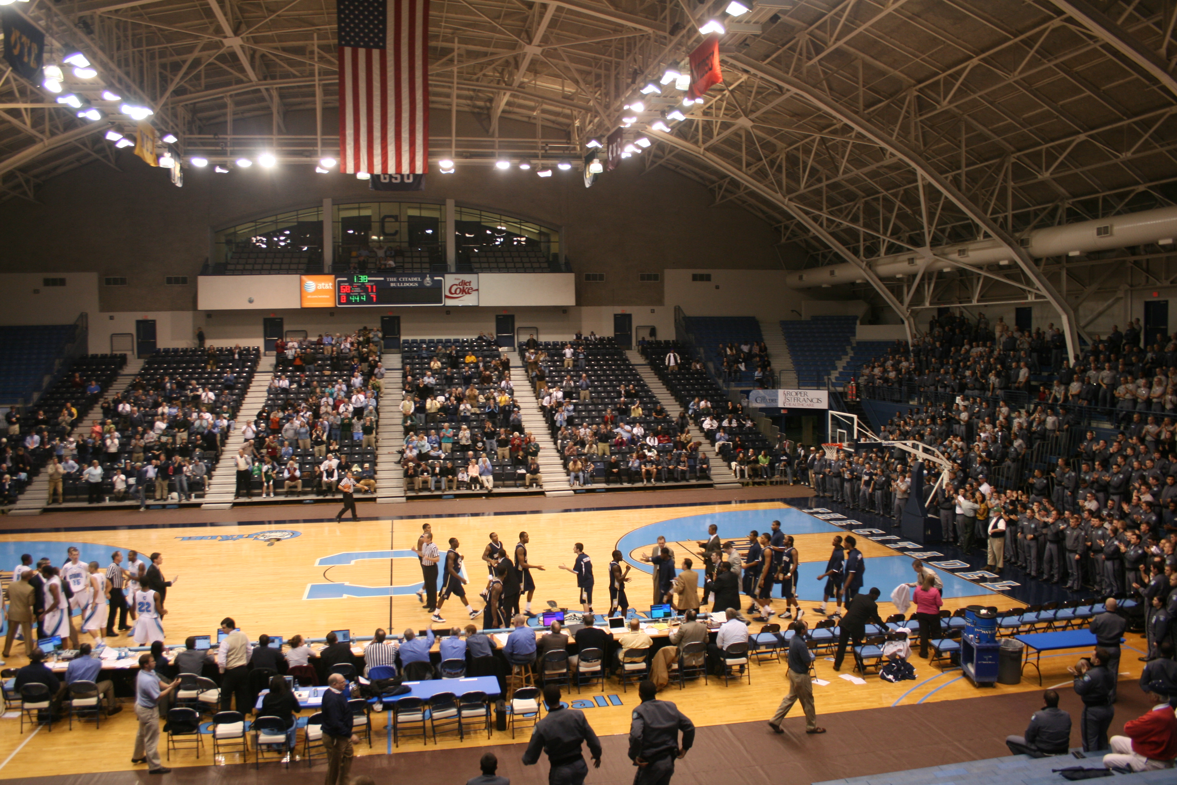 McAlister Field House in Charleston, SC